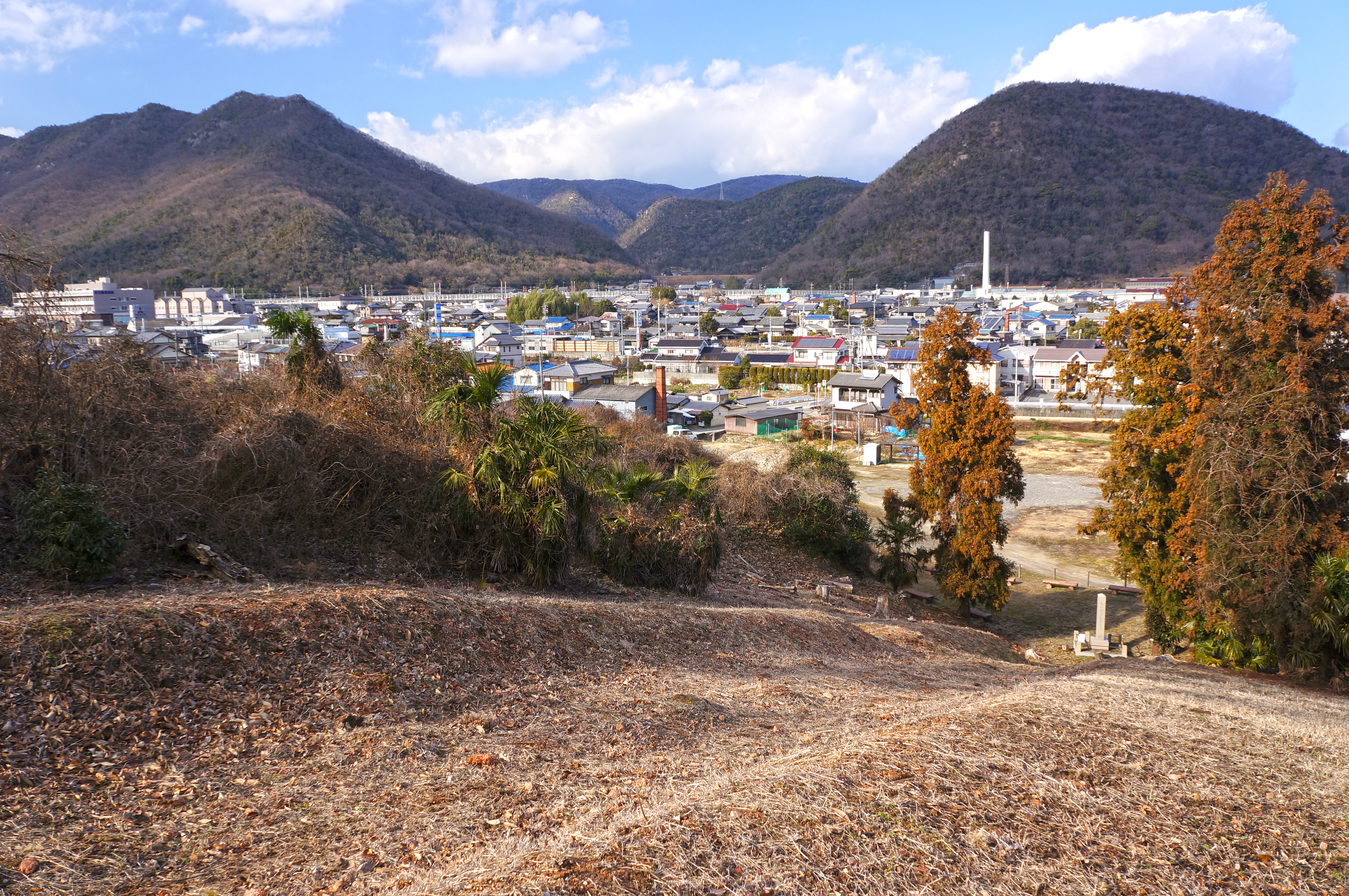 Inbe South Large Kiln Ruins is Japan's National historic sites in Imbe, Bizen, Okayama prefecture, Japan